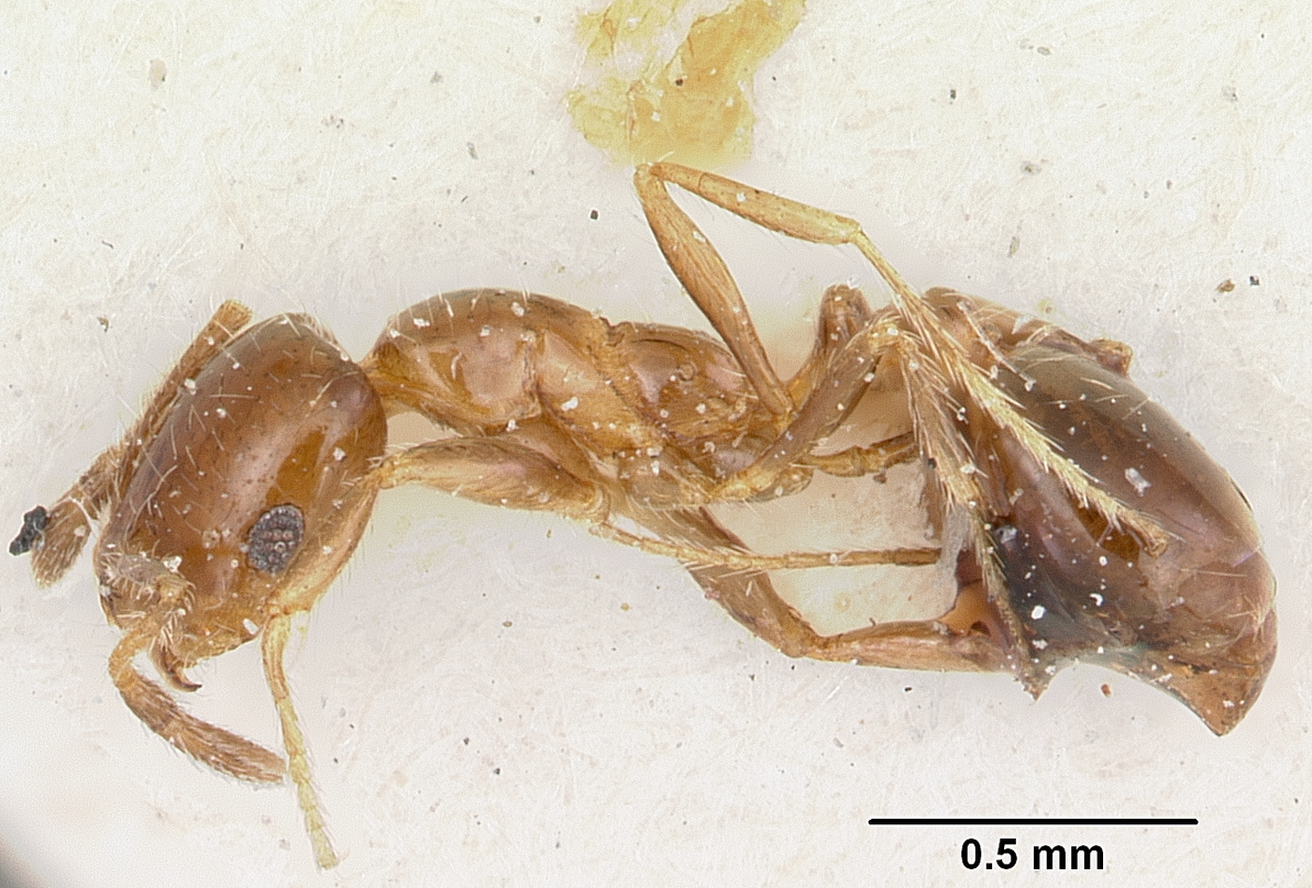 Profile view of ant Solenopsis oculata specimen casent0103205.